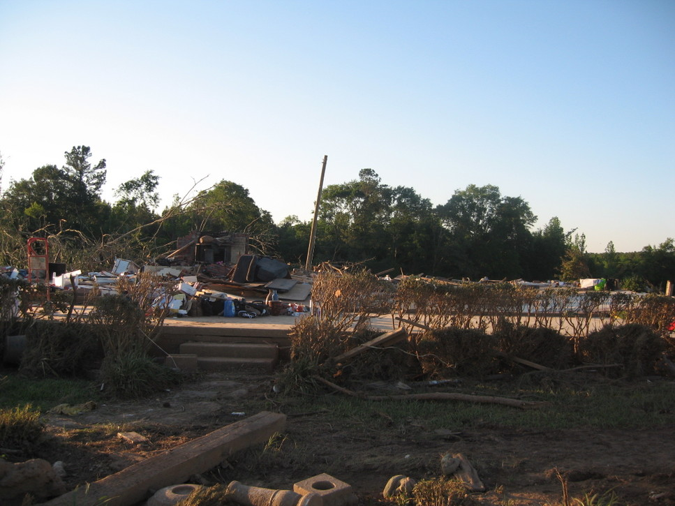 A home in Mississippi that was leveled by a violent tornado during the 2011 Super Outbreak